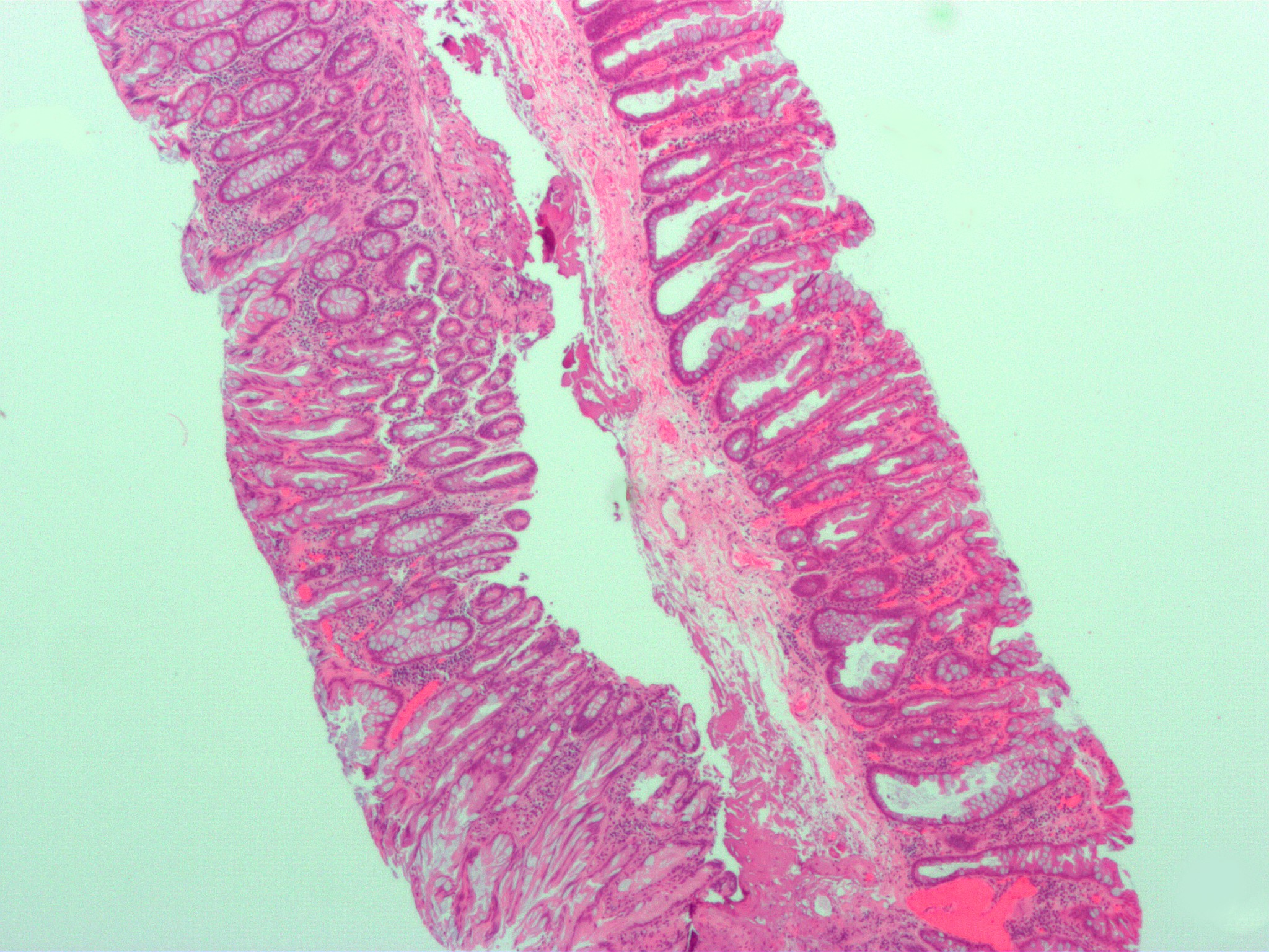 Micrograph of a sessile serrated adenoma (SSA) from the right colon removed during a colonoscopy. H&E stain. The specimen consists primarily of colonic type epithelium; however, there is also a small amount of lamina propria and muscularis mucosae. SSAs are characterized by basal dilation of the crypts, basal crypt serration, crypts that run horizontal to the basement membrane (horizontal crypts) and crypt branching. The above mentioned features are seen, except horizontal crypts. Unlike traditional colonic adenomas (e.g. tubular adenoma, villous adenoma), they do not typically have nuclear changes (nuclear hyperchromatism, nuclear crowding, elliptical/cigar-shaped nuclei). SSAs are considered pre-malignant lesions, i.e. precursors to cancer, and tend to be found in the right colon. Related images Low mag. Intermed. mag. High mag. Another case: Low mag. Intermed. mag. High mag.